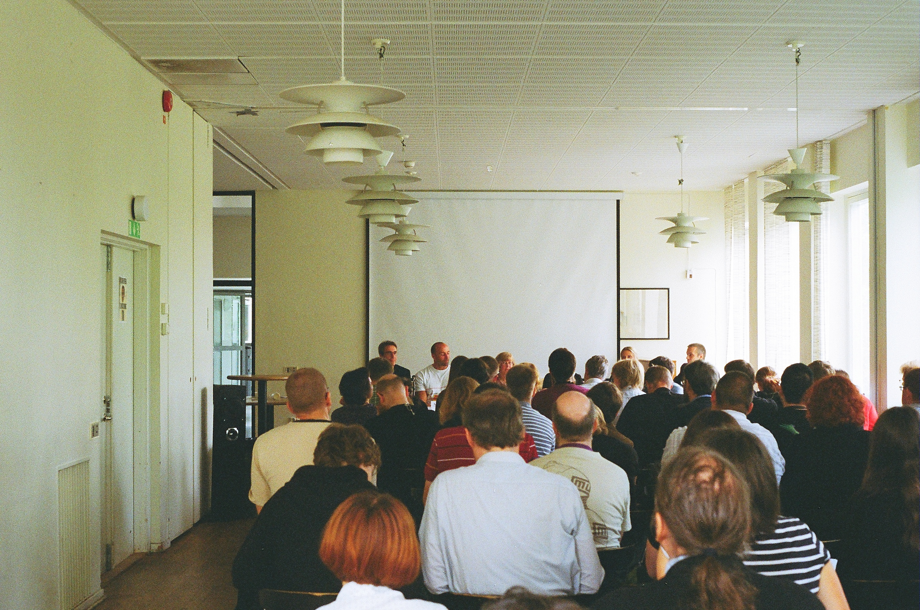 Eurocon 2011, Stockholm.